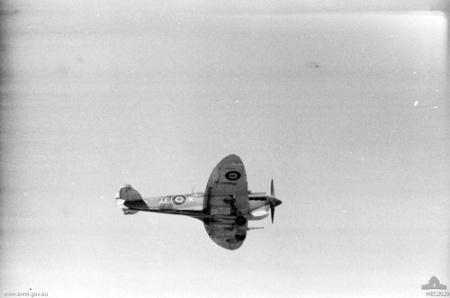 A Royal Air Force Supermarine Spitfire aircraft operating off the island of Malta.